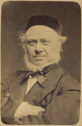 Immanuel Barfod (1820-1896), Danish priest and genealogist